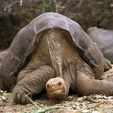 Lonesome George, the last surviving Pinta giant tortoise, (Geochelone nigra abingdoni) on Santa Cruz.